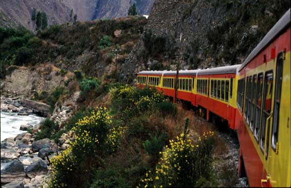 PeruRail near the Urubamba.